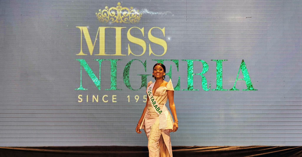 Beauty Estanyi Tukura 01